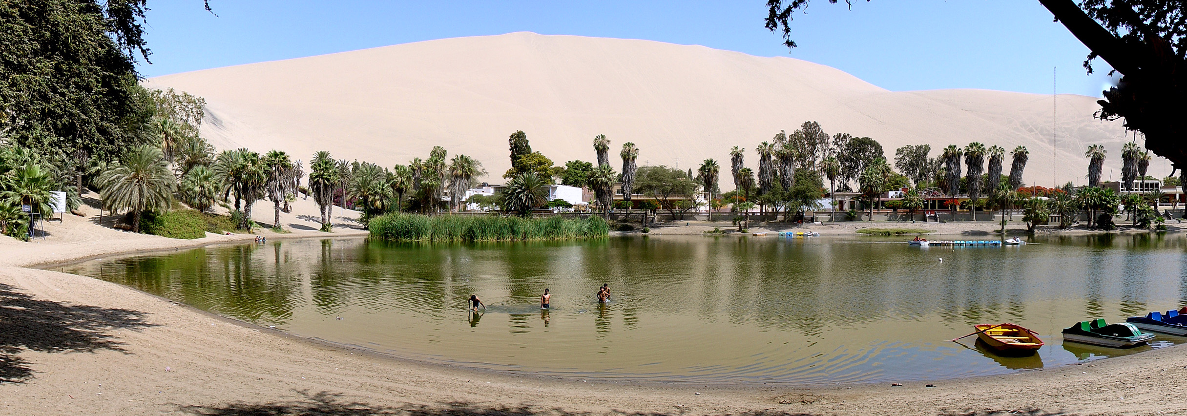 Huacachina oasis, Peru